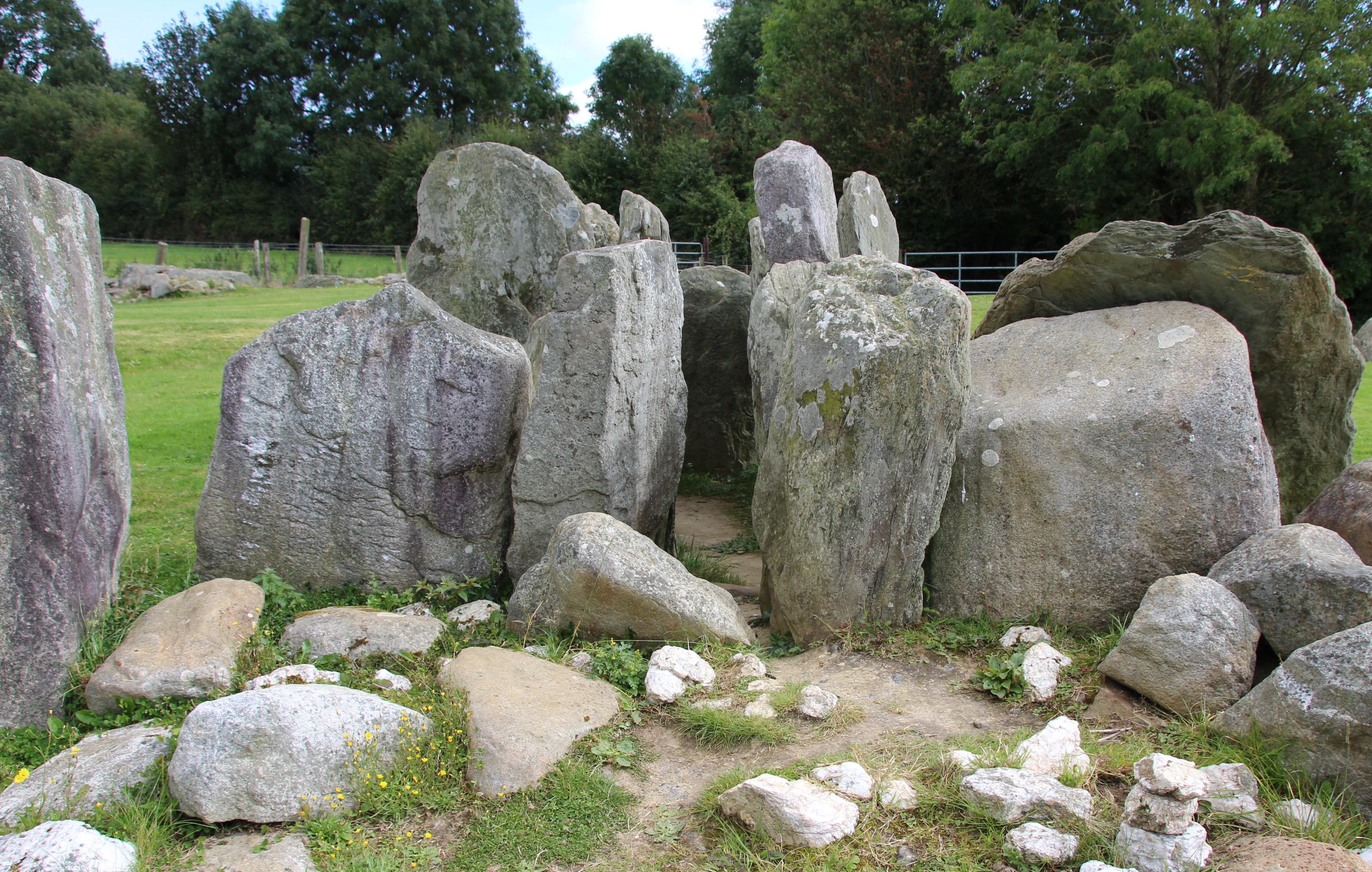 County Kilkenny, Knockroe Passage Tomb. Wikidata has entry Q15057068 with data related to this item.